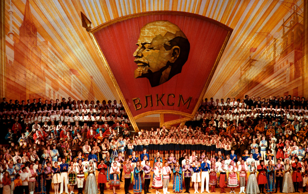 “A masters-of-art concert on the VLKSM 60th anniversary”. A masters-of-art concert in the Kremlin Palace of Congresses after an official session of the YCL (All-Union Lenin Young Communist League) Central Committee, YCL activists of Moscow and the Moscow Region on the YCL's 60th anniversary.